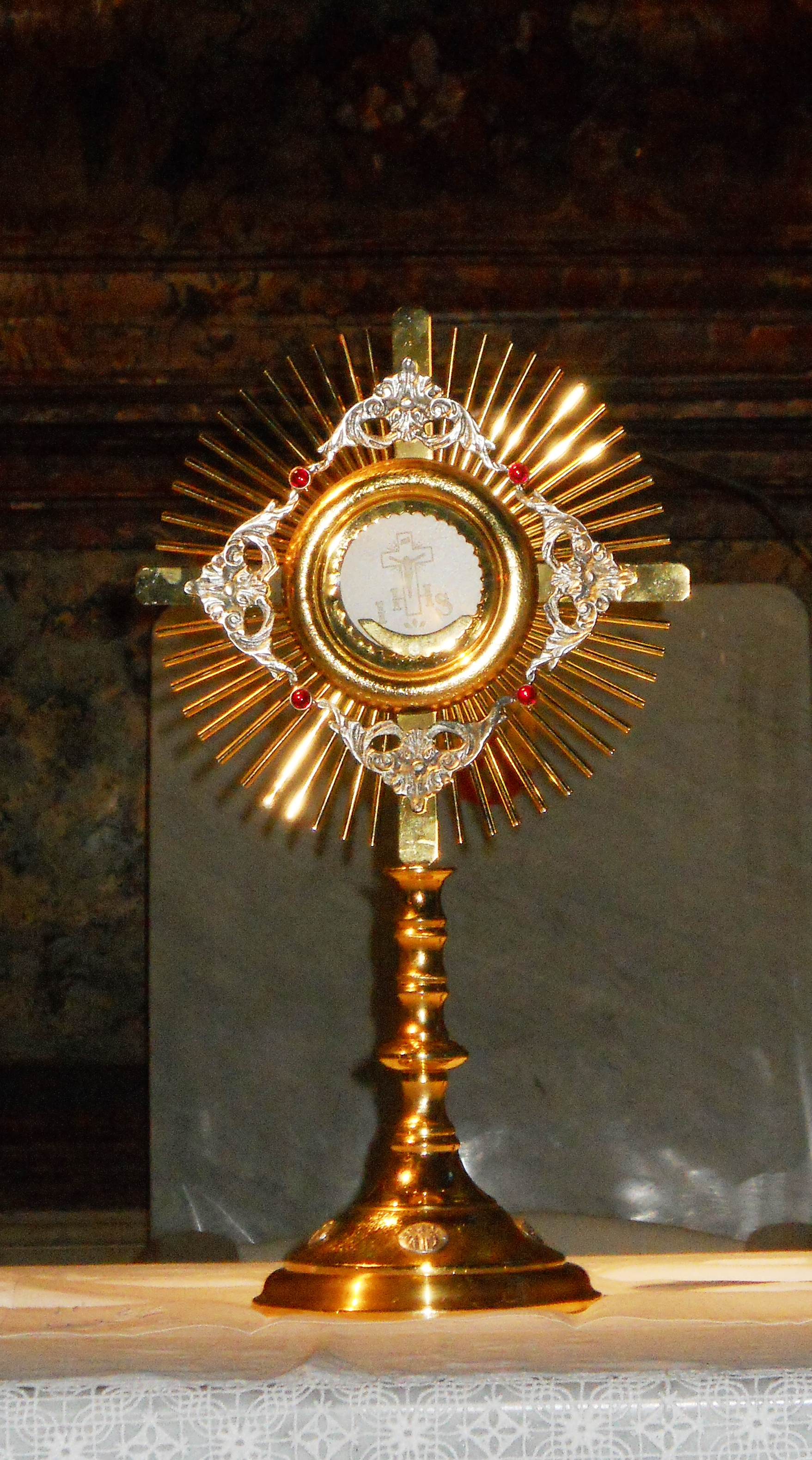 The monstrance in the Basilica on Ptujska gora, Slovenia.